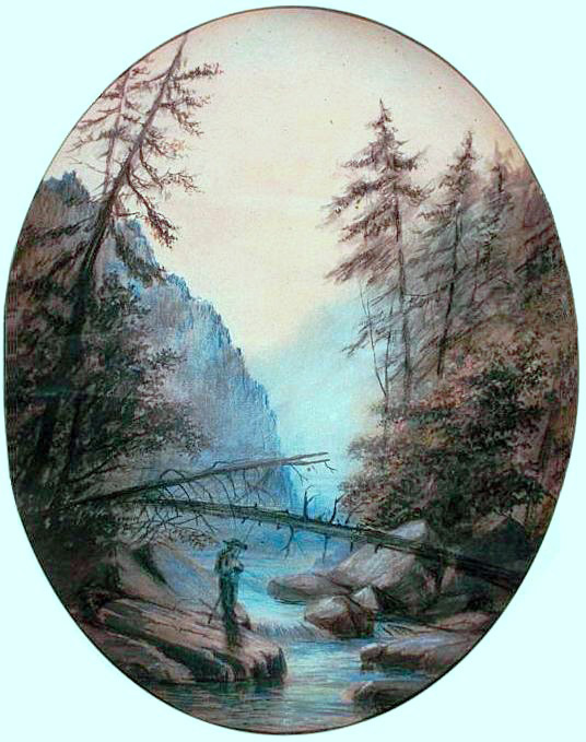 Drawing, Gorge at Coaticook, Quebec, William Hunter, 1850-1860, 52.7 x 42.3 cm